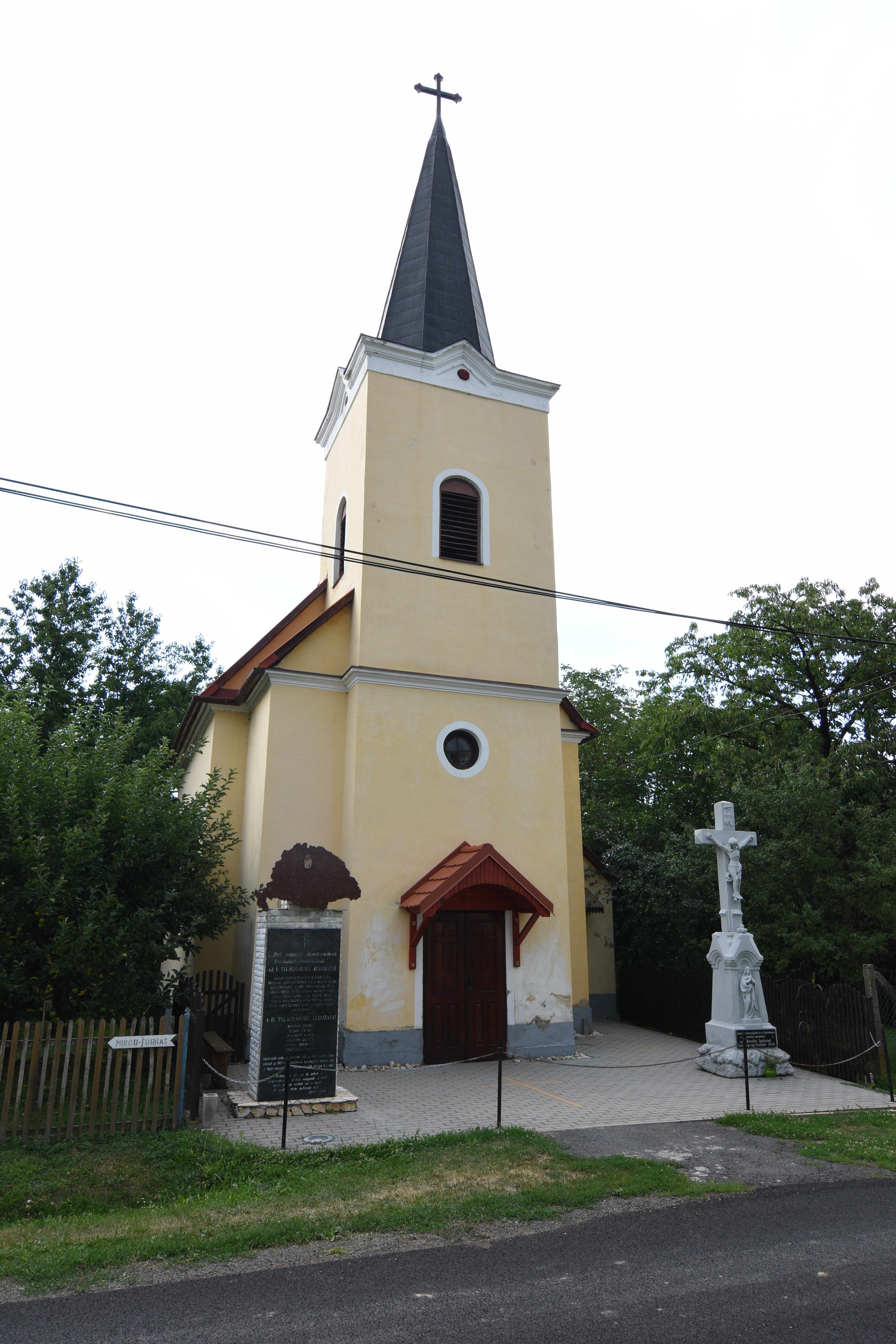 Kemestaródfa